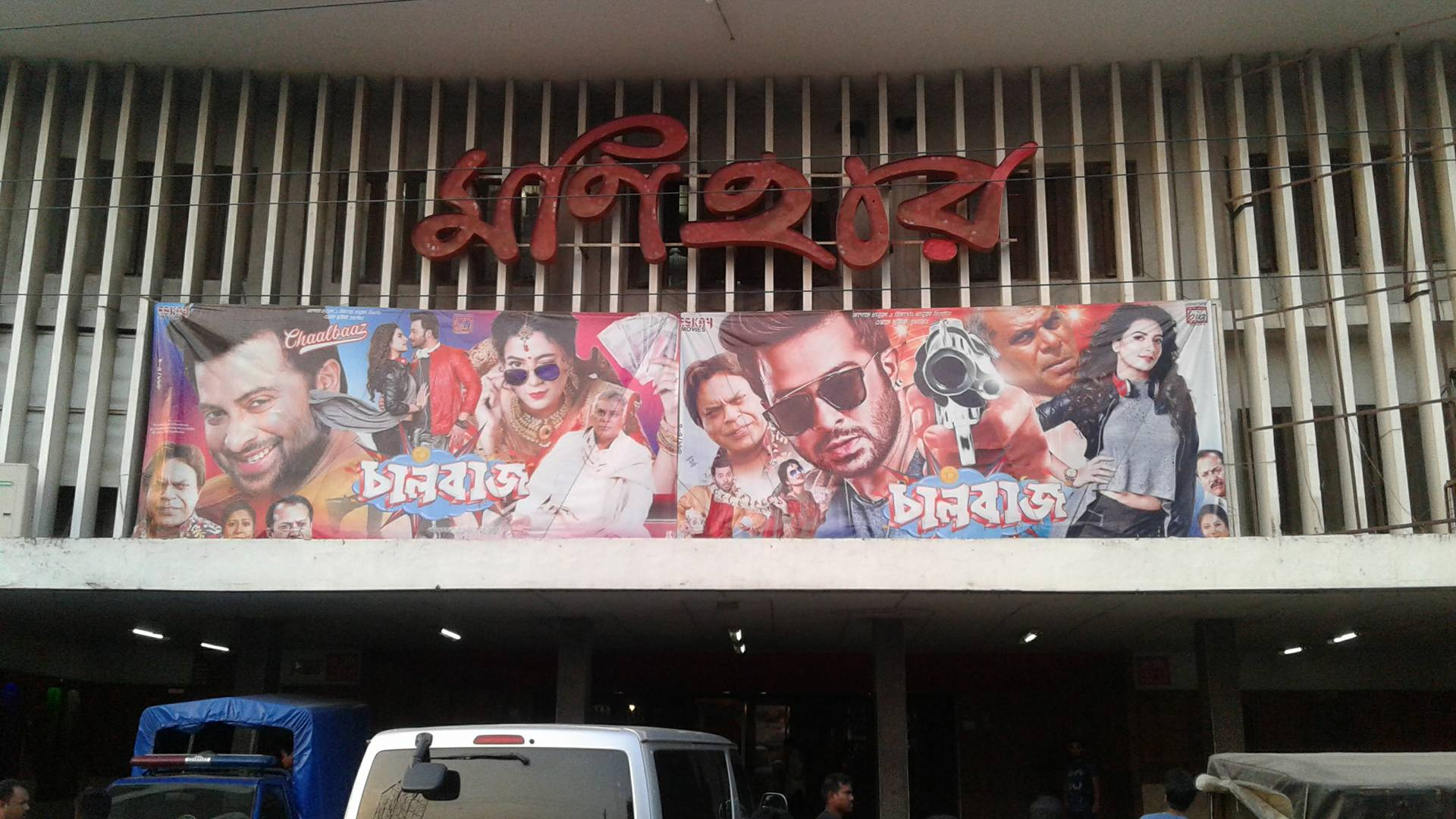 Front view of Monihar Cinema Hall